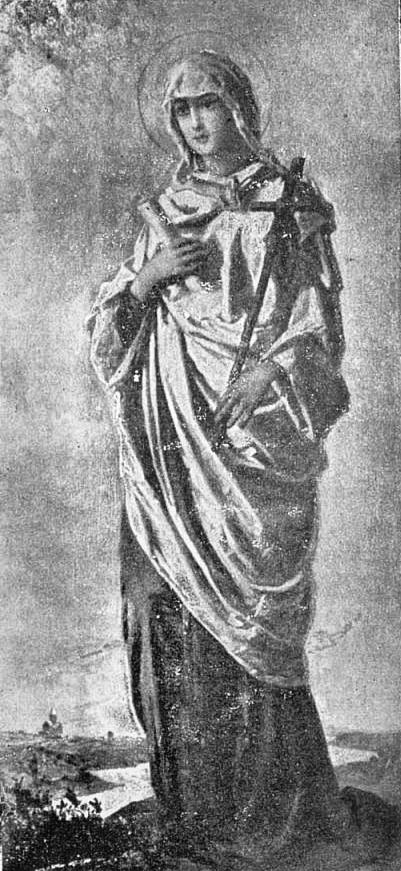 St. Nino. An illustration from Letopis' Gruzii, edited by B. Esadze, 1913.